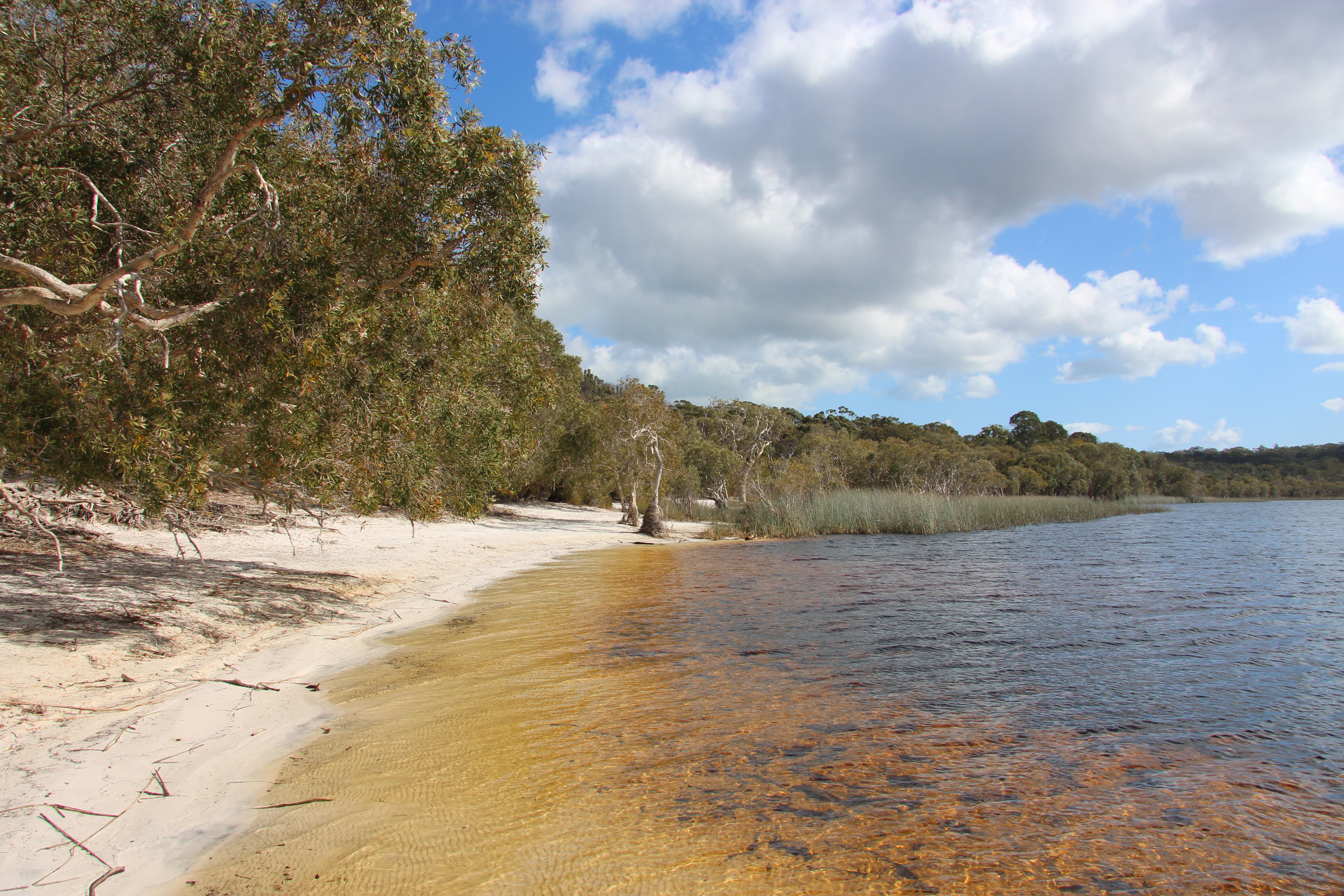 Brown Lake on North Stradbroke Island, Queensland, Australia, in 2014.